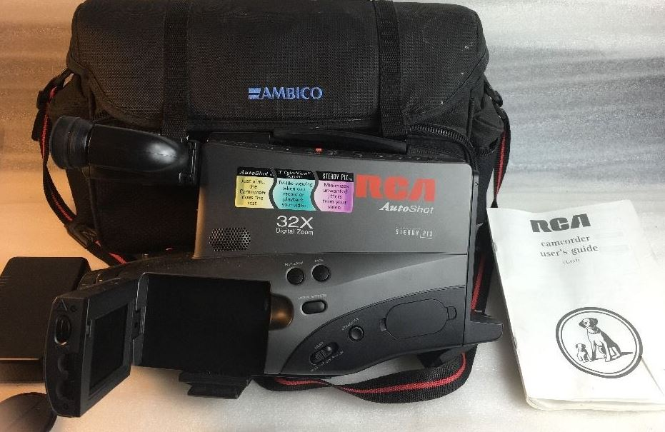 A typical late-1990s RCA full-size VHS camcorder with a three-inch color LCD screen and black-and-white viewfinder (model CC-4371), with a carrying case behind the camcorder (positioned on the top left corner of this picture). This camcorder can record and playback tapes only in the standard play mode; tapes recorded in the EP/SLP mode will not work with this camcorder.